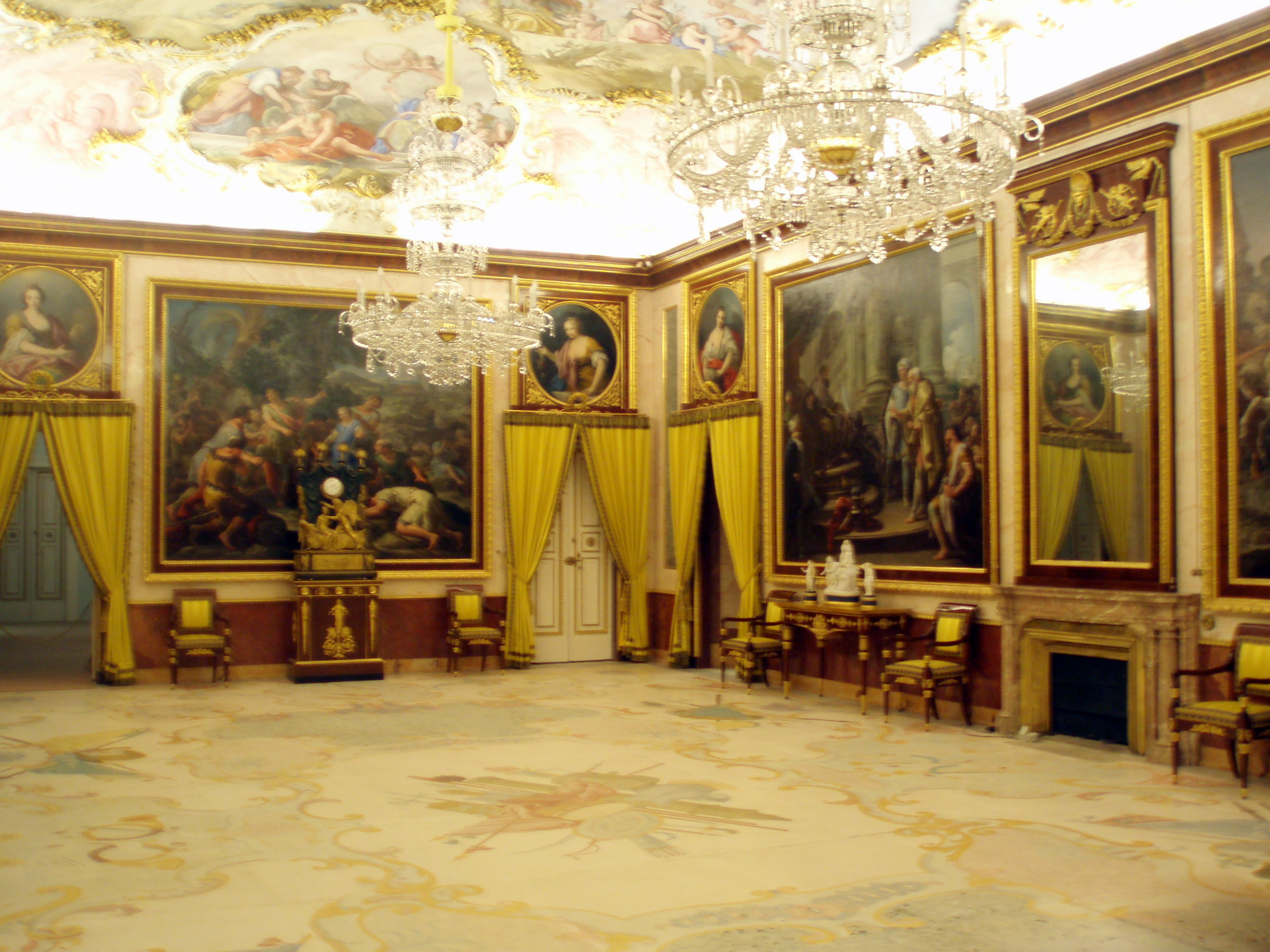 Detail of the interior of the Royal Palace of Aranjuez (Community of Madrid, Spain).